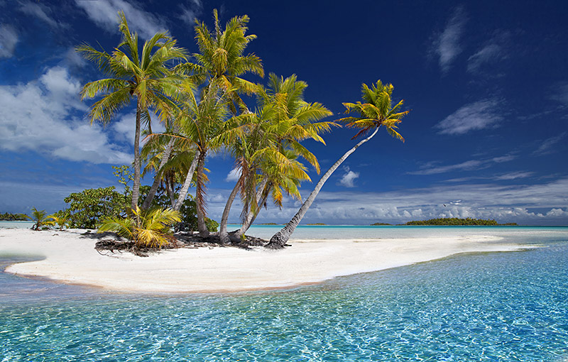 Blue Lagoon - Rangiroa Atoll